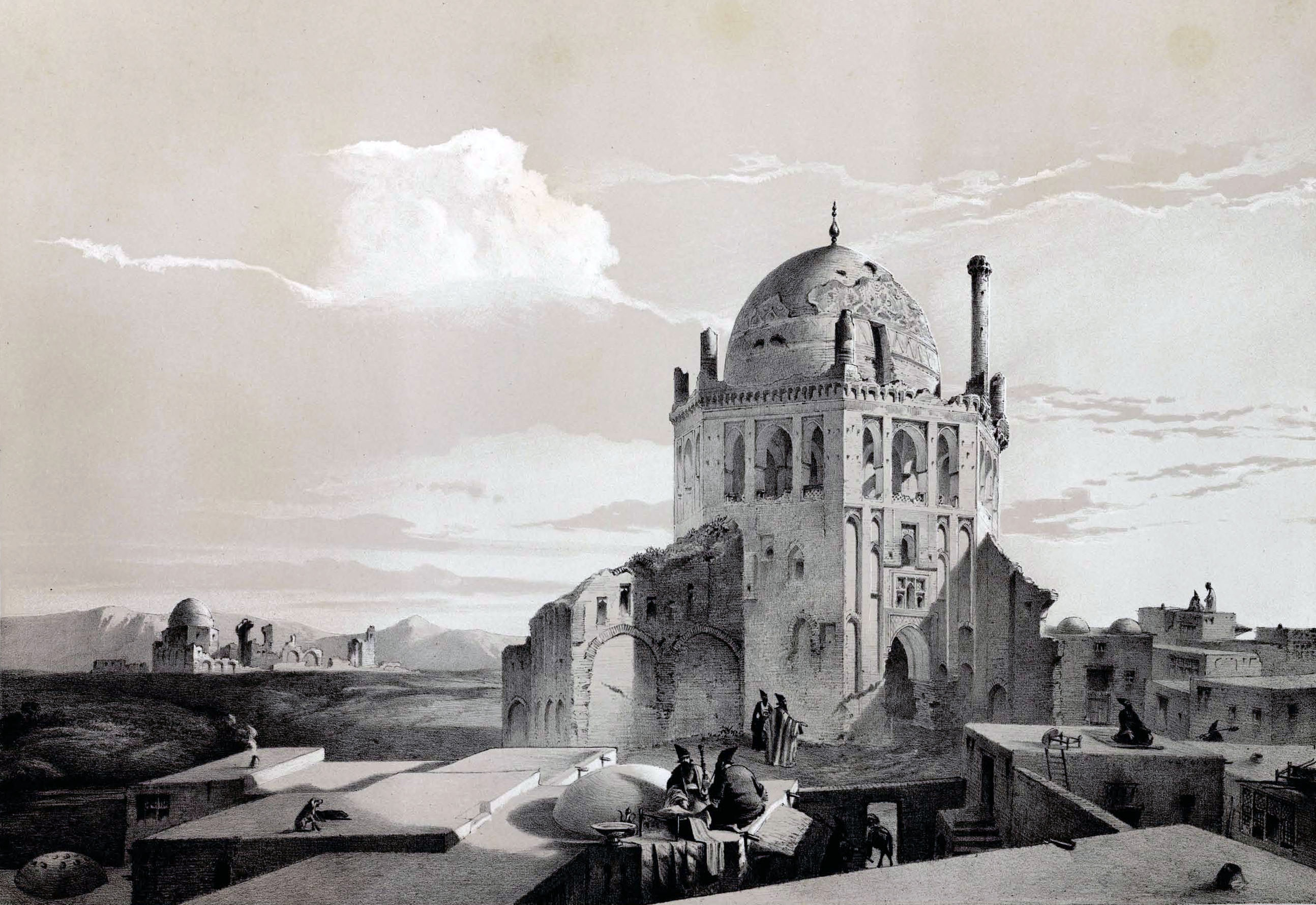 Shah Khoda Bendeh mosque in Sultanieh. Chalabioghlou mausoleum is in background